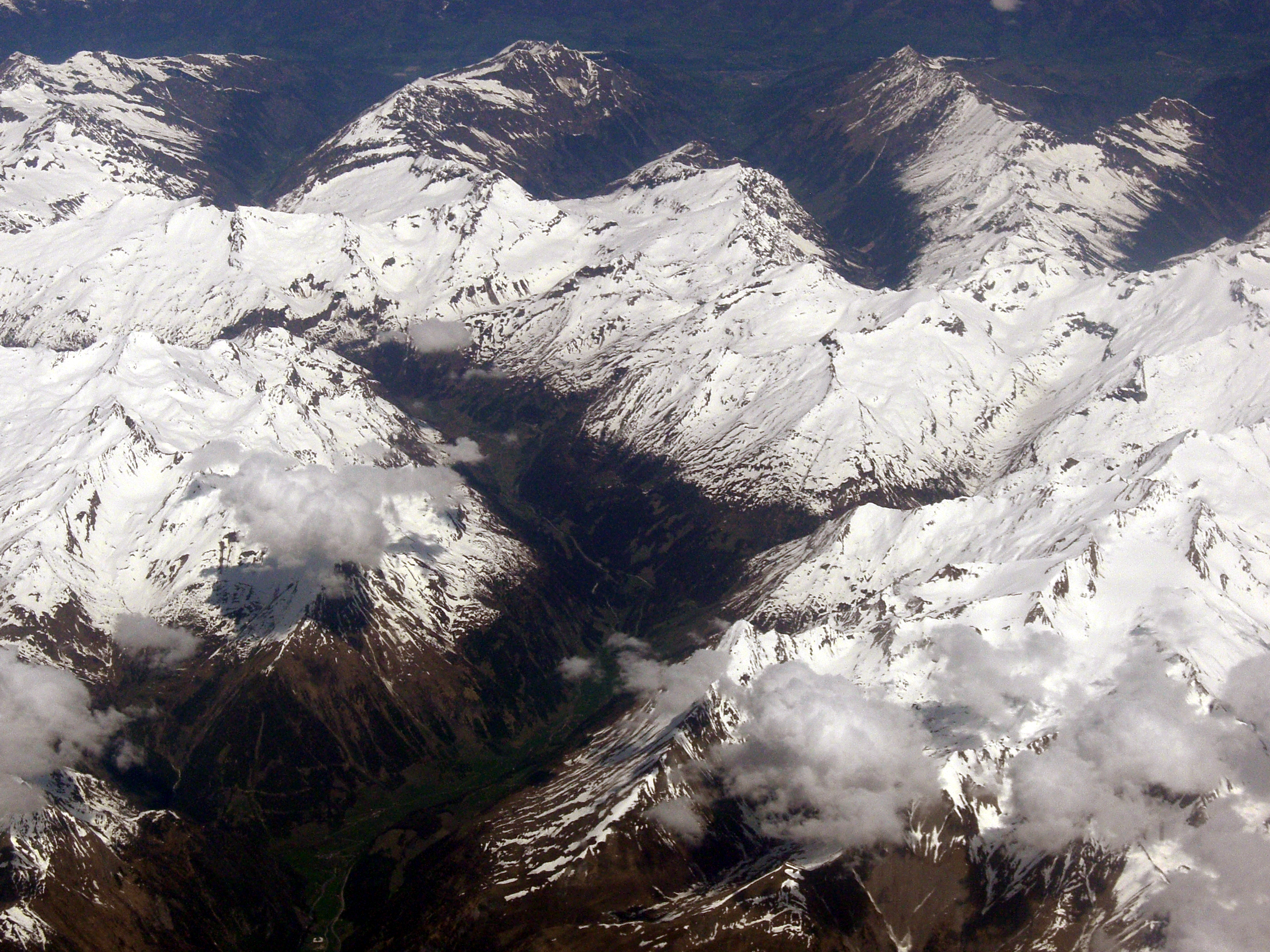 Seasonal snow line in Alp, Austria.